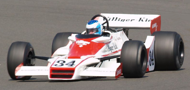 Shadow DN9 at Silverstone